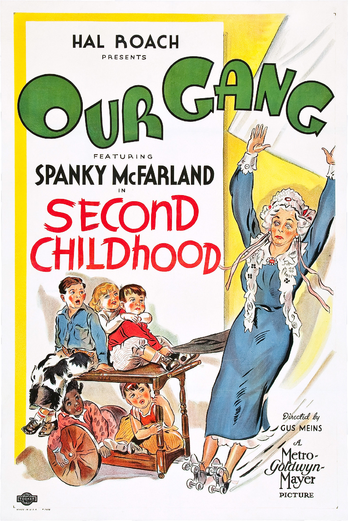 Poster for the 1936 Our Gang film Second Childhood. The item has no copyright markings on it as can be seen in the links above. At lower left is the Tooker Litho Co.'s logo-they printed the poster, and #7698.